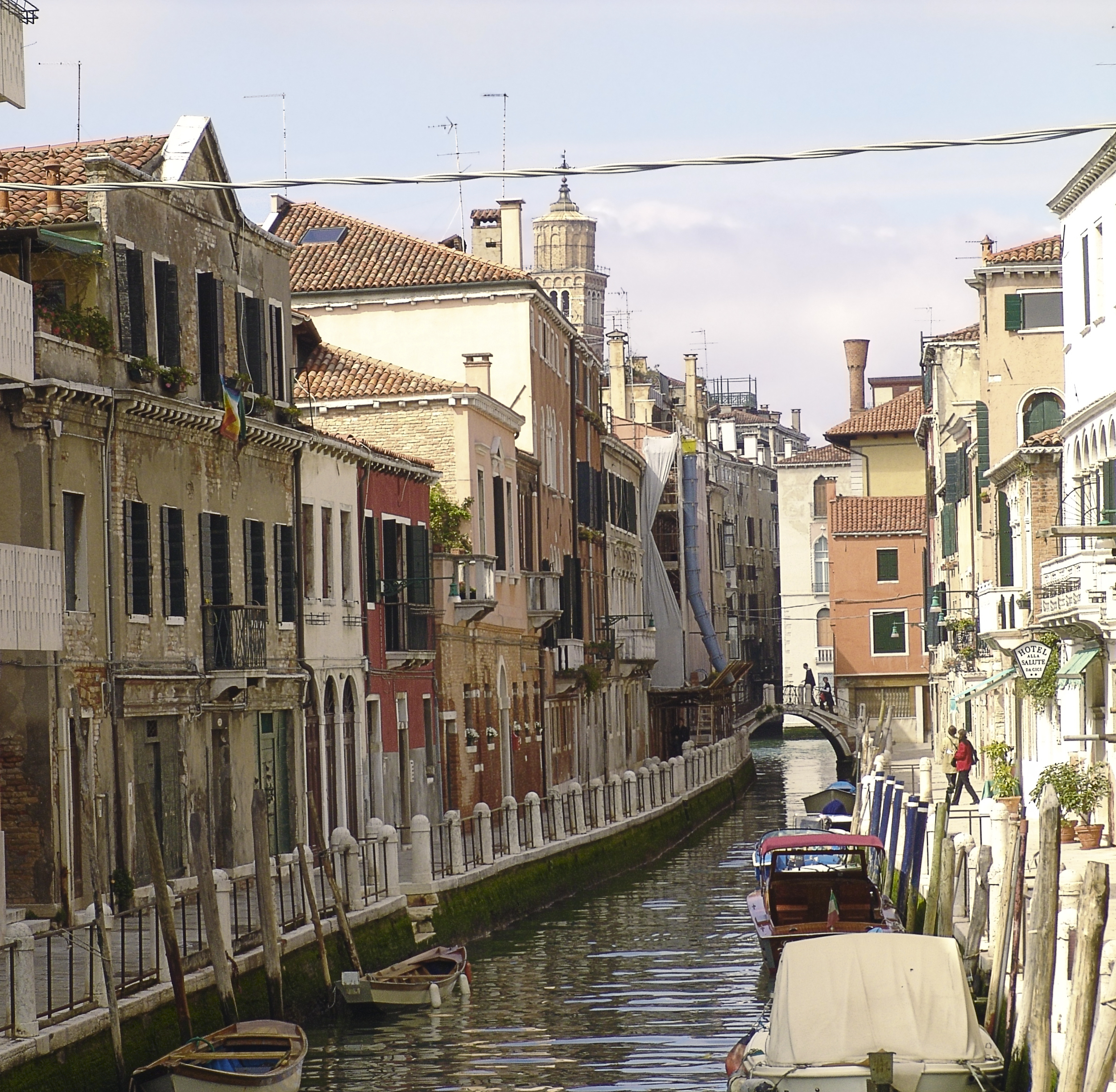 Rio de la Fornasa, looking north from the bridge Ponte Santi o De Mezzo, Venice.